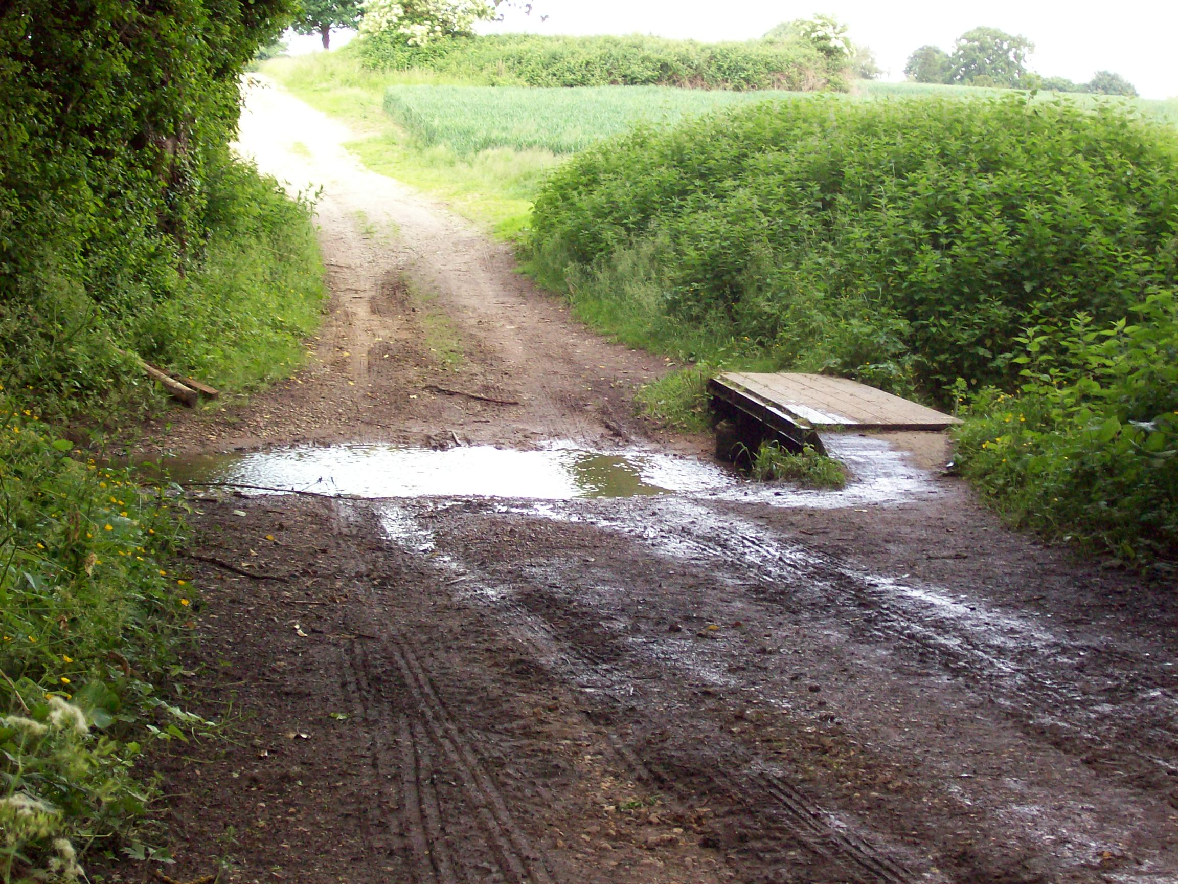 A photo of the ford on the Wateringbury Stream at Wateringbury